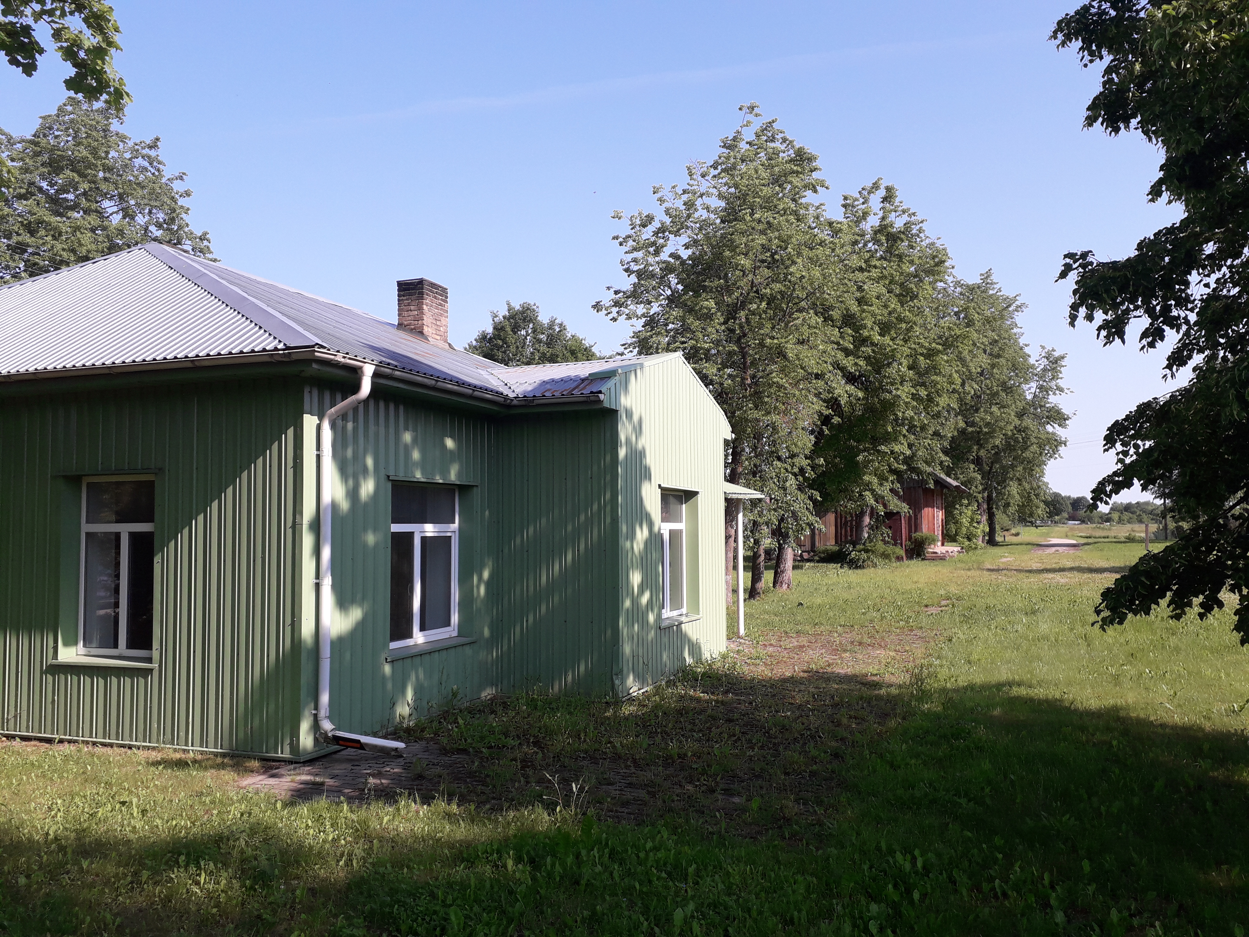 Former Pandėlys railway station of Skapiškis-Suvainiškis narrow gauge railway, Pandėlys, Rokiškis district, Lithuania